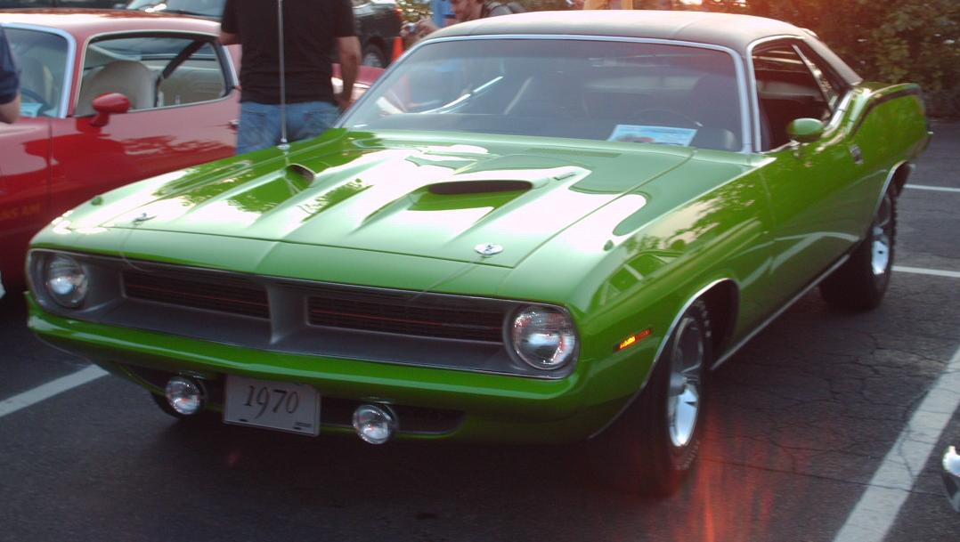 1970 Plymouth Barracuda photographed in Montreal, Quebec, Canada at Gibeau Orange Julep.